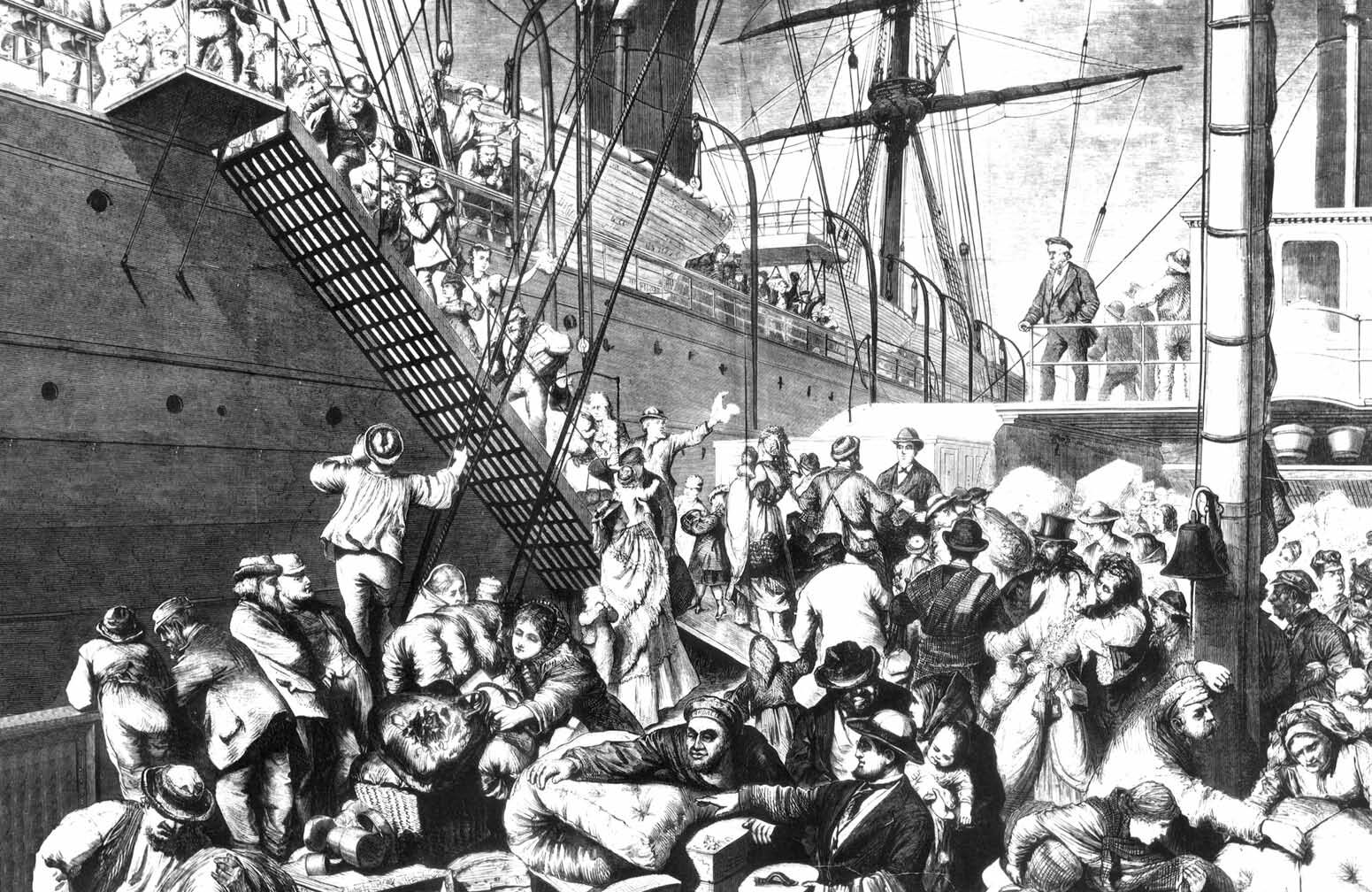 From the Old to the New World" shows German emigrants boarding a steamer in Hamburg, Germany, to come to America.